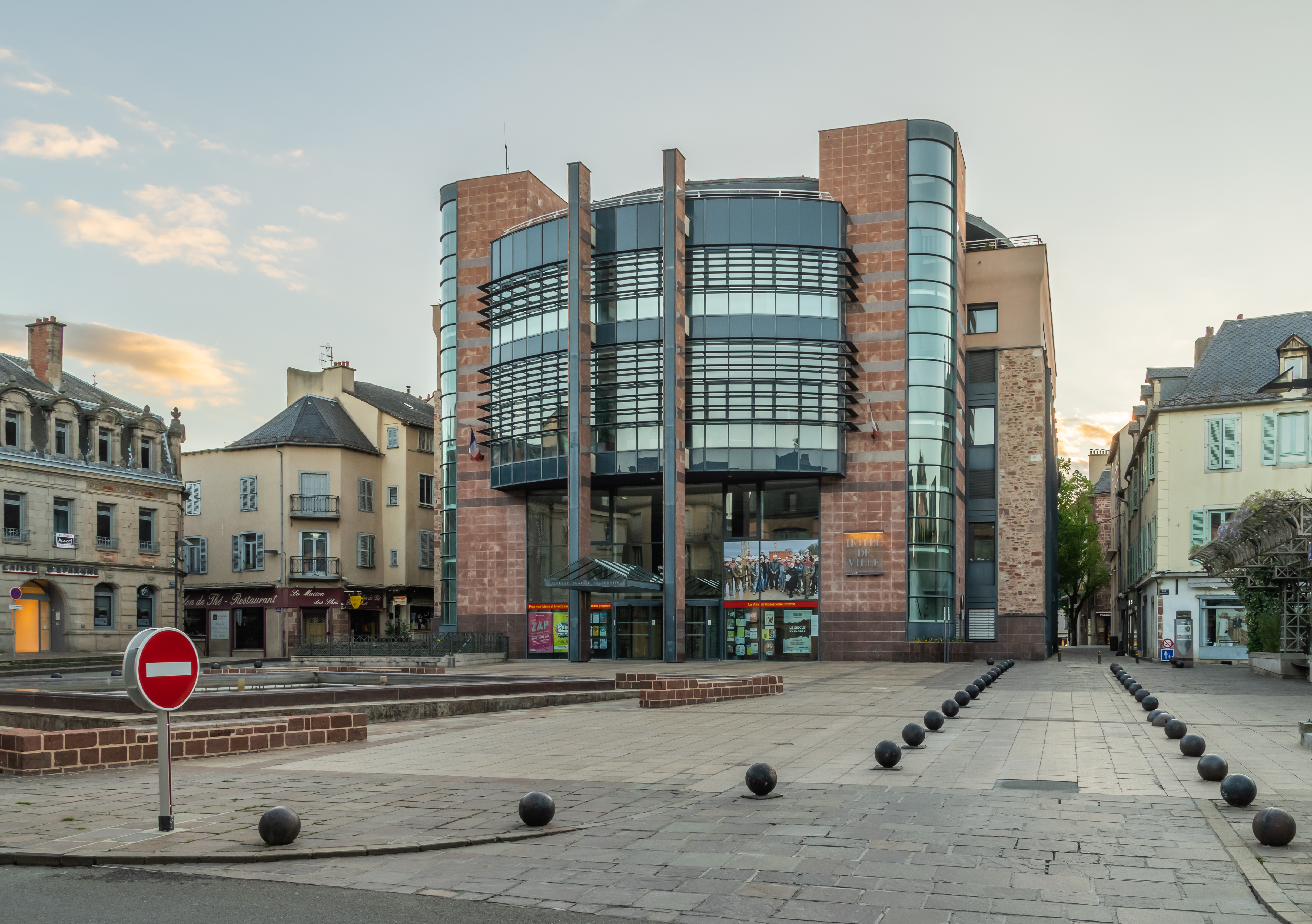 City hall of Rodez, Aveyron, France